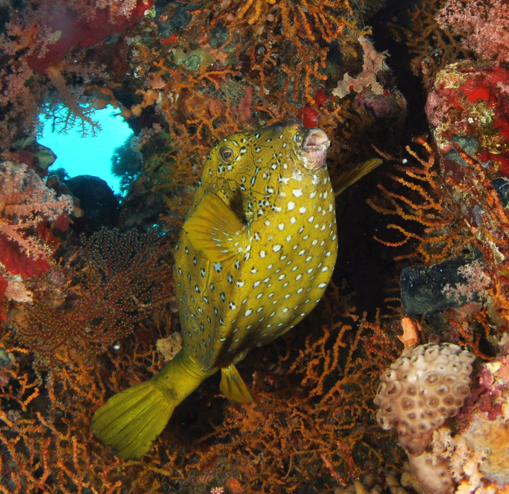 Ostracion cubicus Boxfish